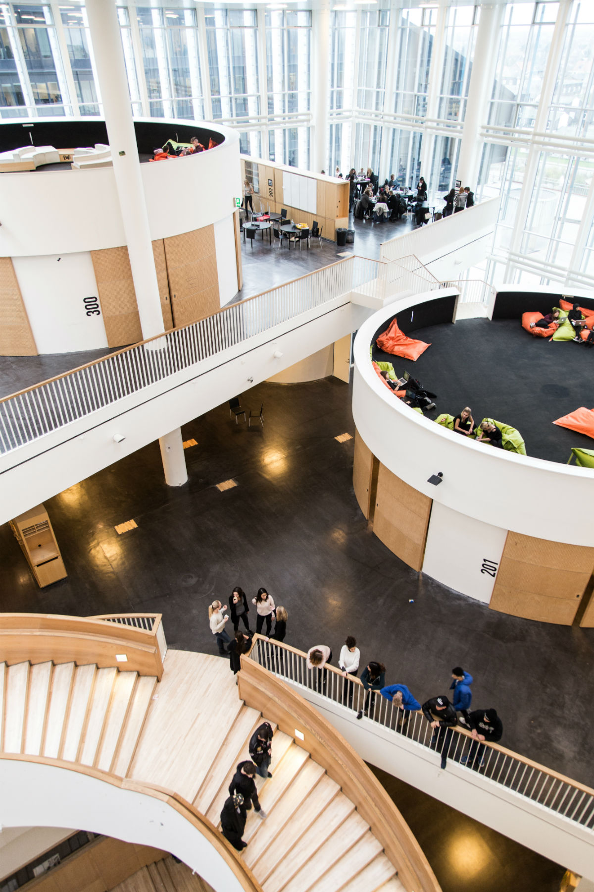 Oerestad Gymnasium from the inside